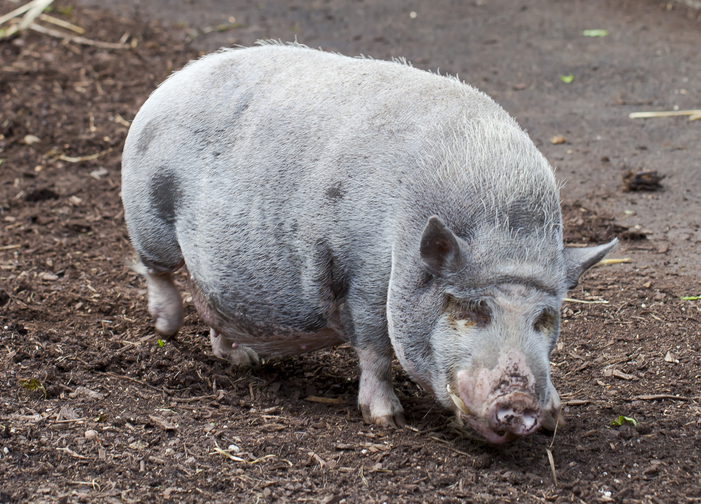 Turopolje pig, Tierpark Hellabrunn, Munich, Germany